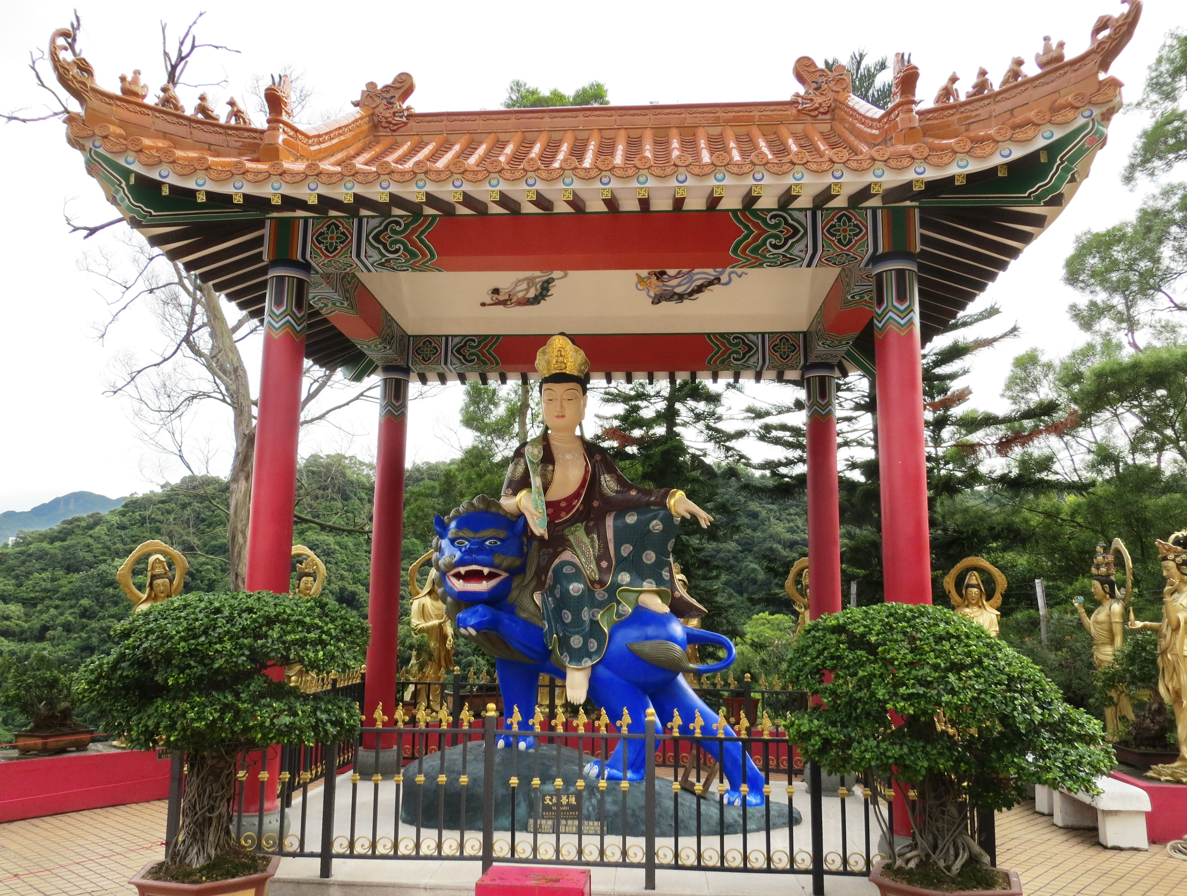 Manjusri Pavilion,Ten Thousand Buddhas Monastery, Sha Tin, New Territories, Hong Kong.